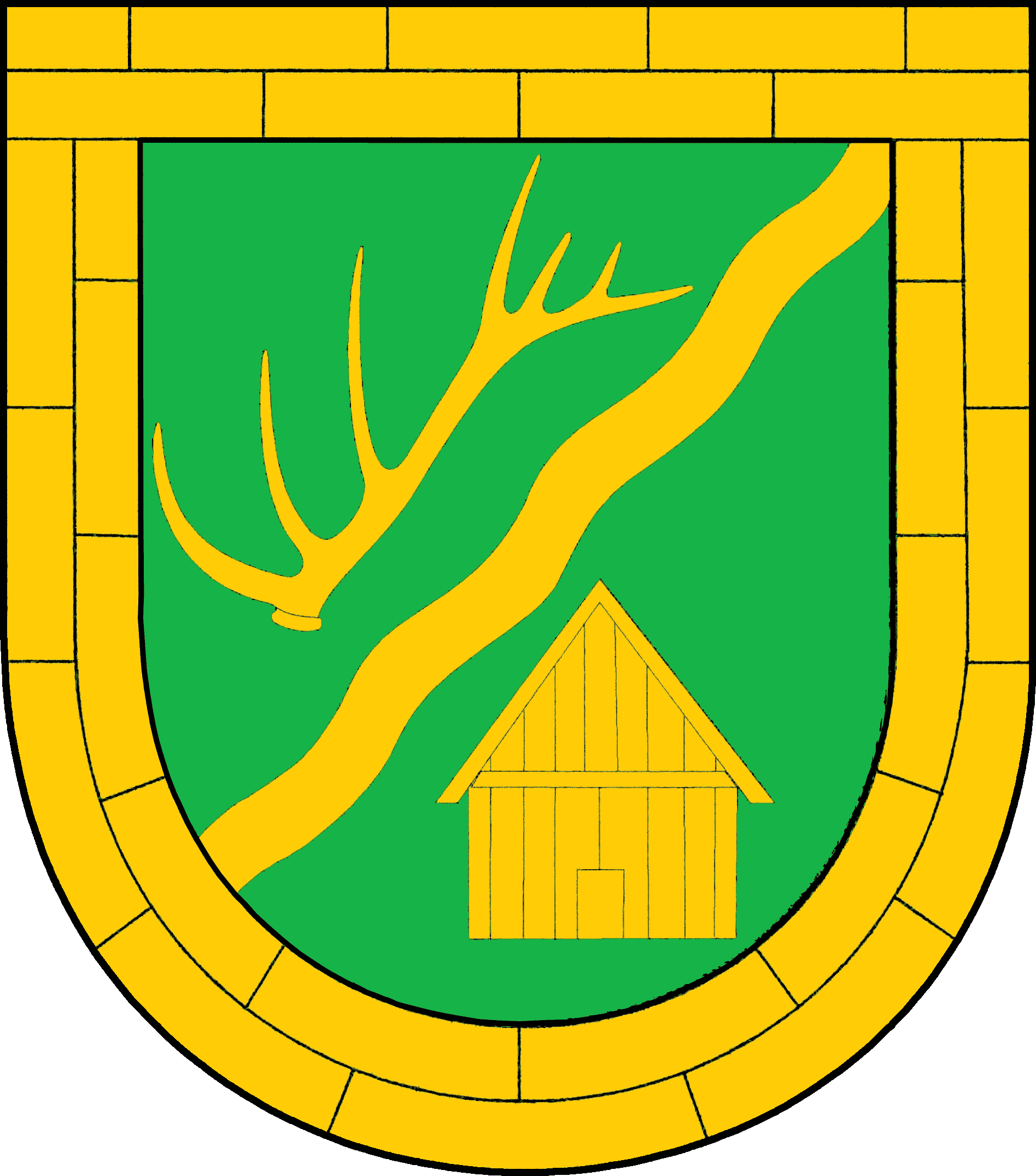 Coat of arms of the municipality Oldenhütten in Schleswig-Holstein, Germany.